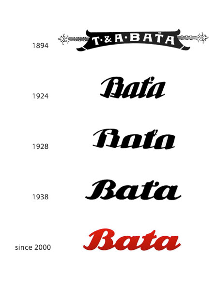 Major evolutions of the Bata logotype